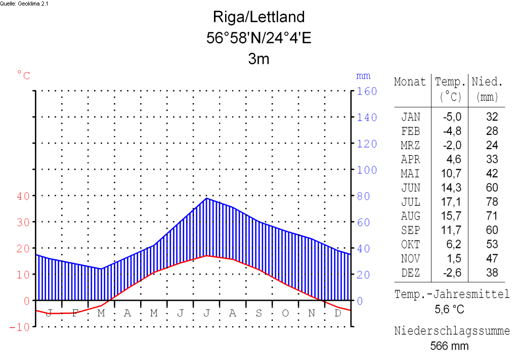 climate chart in the format by Walter and Lieth, metric, °Celsisus and millimeters, made with Geoklima 2.1